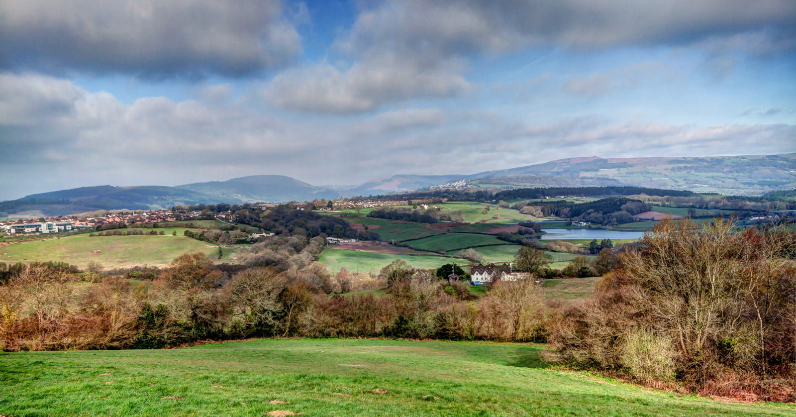 Newport, Wales MG_0131